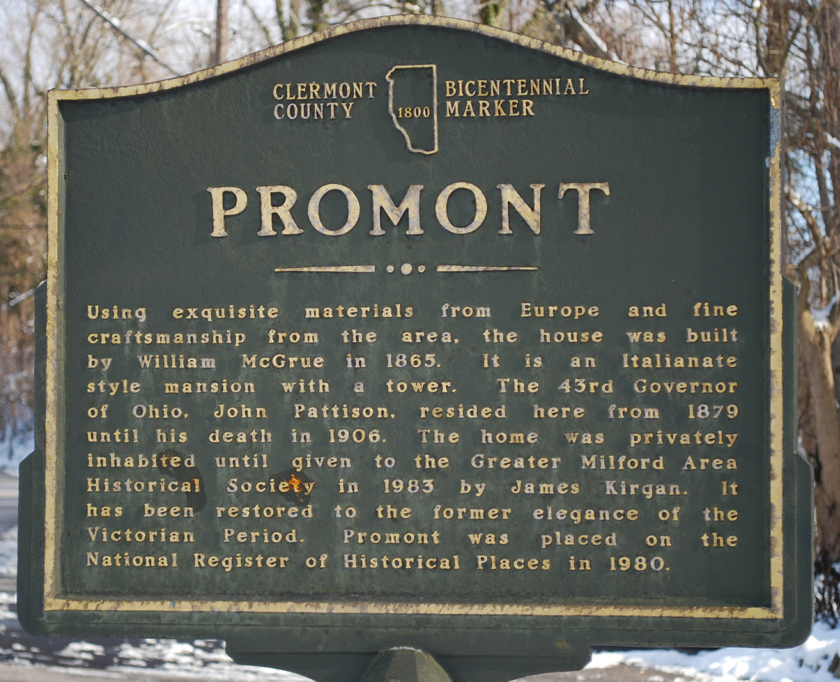 Road side marker for Promont in Milford OH